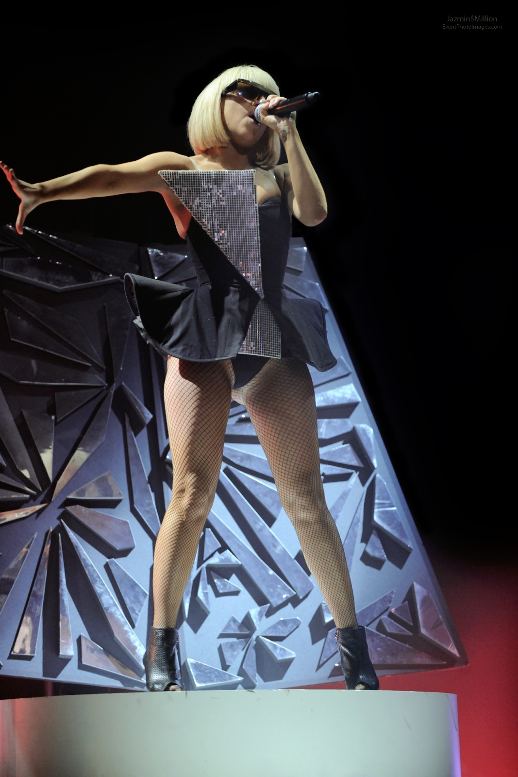 Lady Gaga performing "Paparazzi" on The Fame Ball Tour in Montreal, Canada.